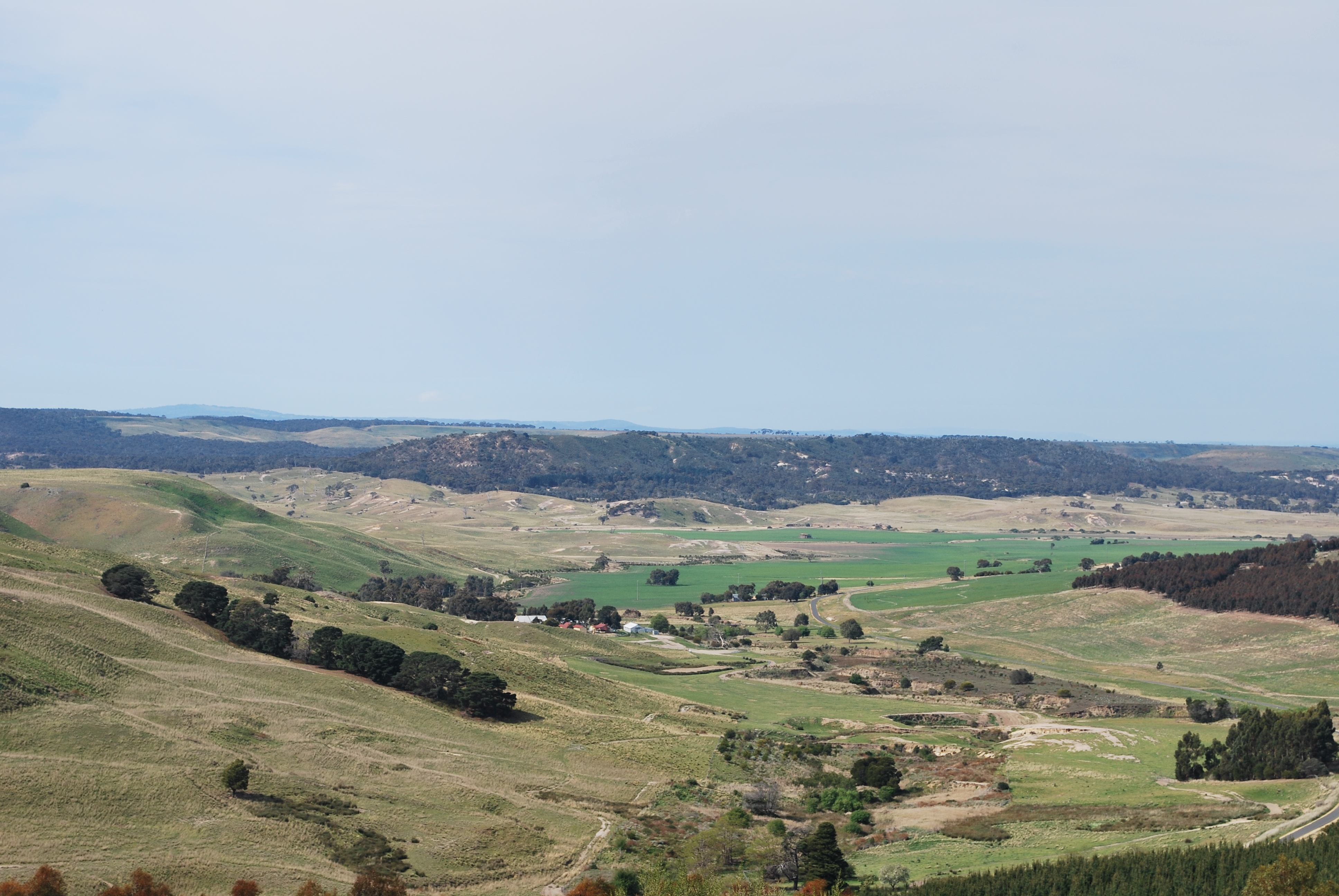 Looking down into the valley of Parwan Creek at Glenmore, Victoria